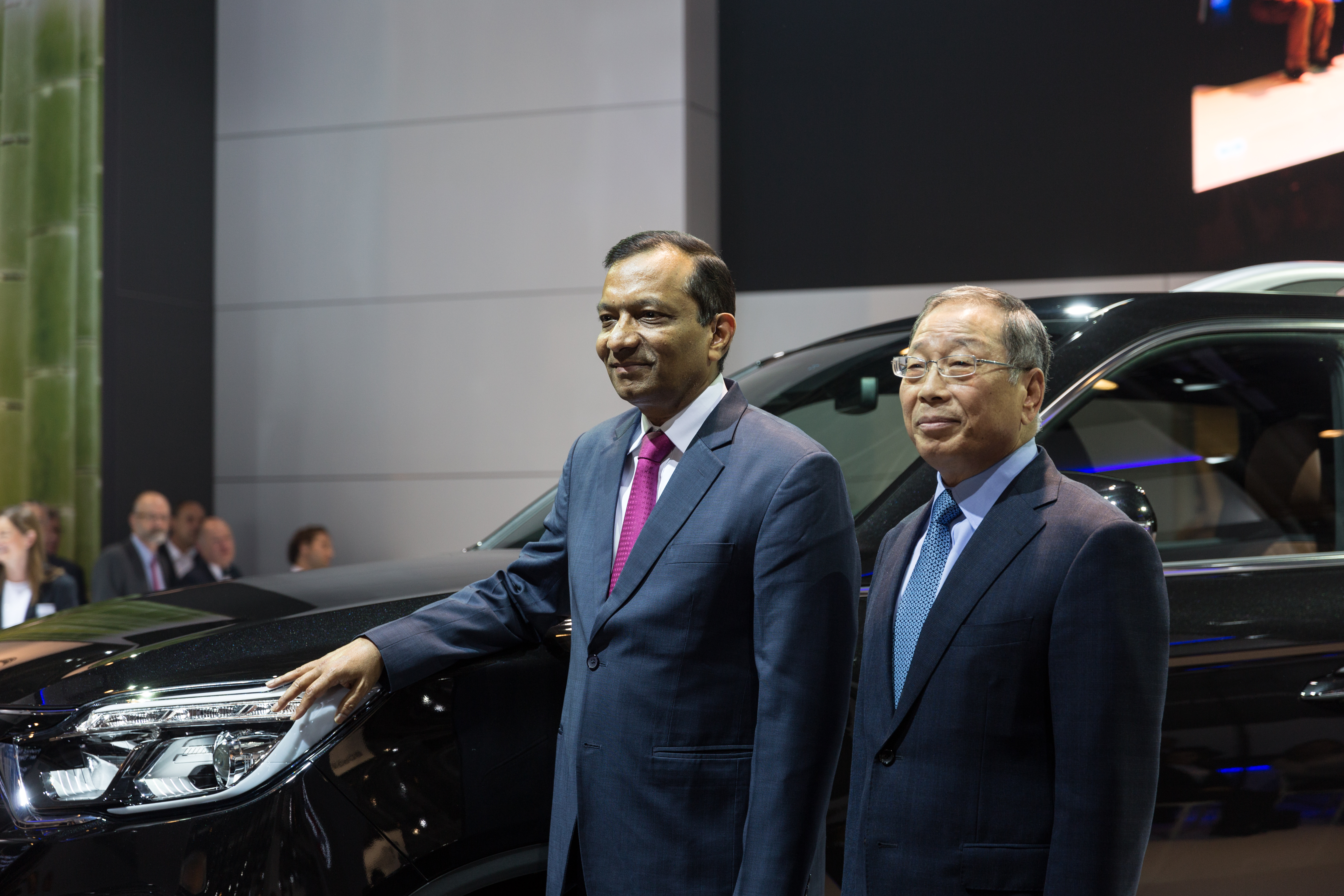 Pawan Goenka and Johng-Sik Choi, SsangYong press conference, IAA 2017